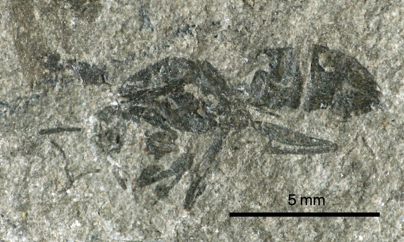 A Camponotus induratus male, (lectotype of Formica pinguicola radobojana synonym of Camponotus induratus) Burdigalian; Radoboj deposits; Radoboj area, Krapinsko-Zagorska, Croatia. Universalmuseum Joanneum Graz, Styria, Austria; specimen UMJ77632